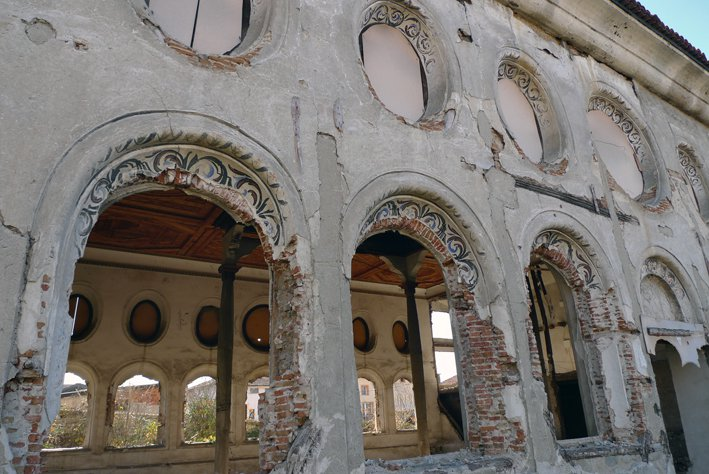 Bulgaria: Samokov Synagogue